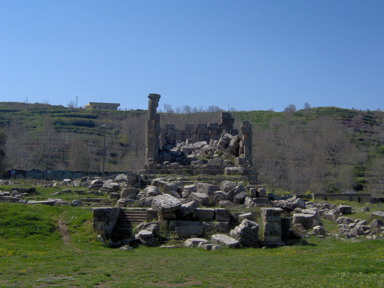 The Roman temple of Baotocecea (now Hosn Sulayman in Syria)